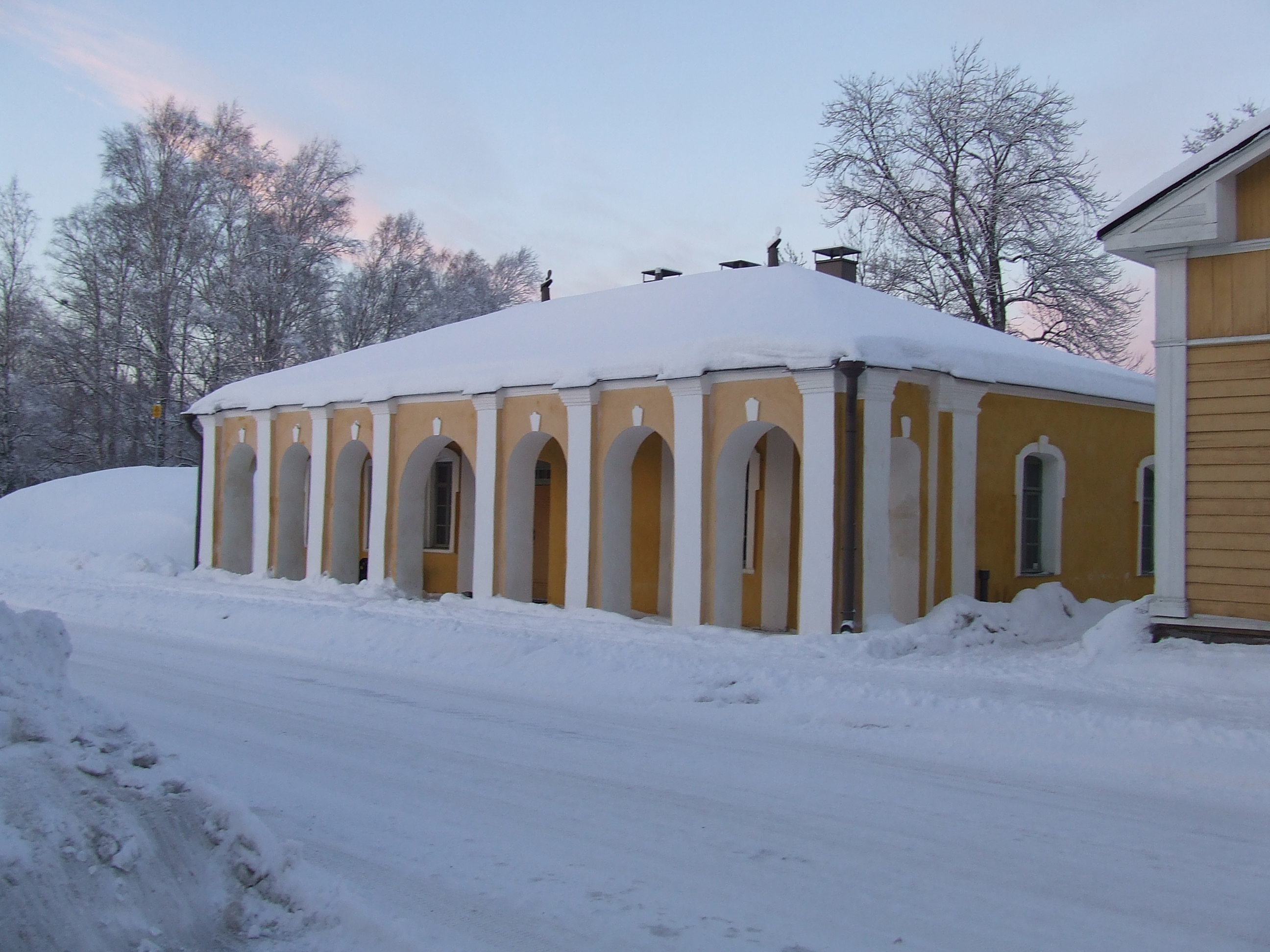 The guardhouse of the Lappeenranta gate in Hamina, Finland. The building served as the main guard of the Hamina fortress from 1840 to 1974.